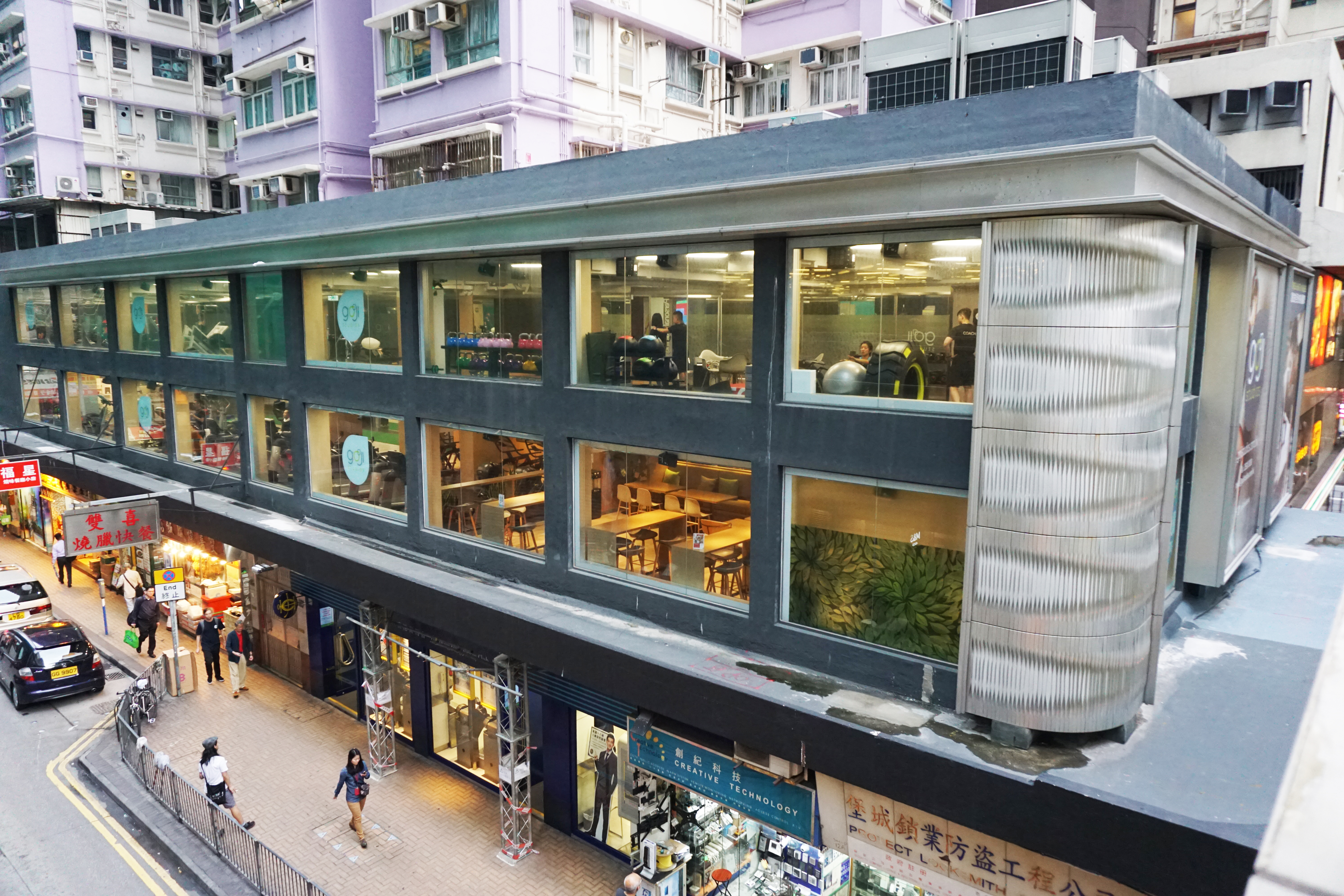 Goji Studios in Wan Chai, Hong Kong.